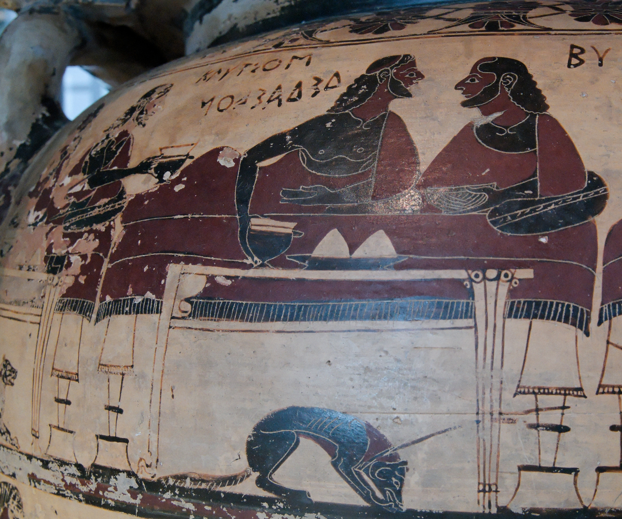 Banqueters. Upper tier (left side), side A of the so-called Eurytios Krater, a Corinthian column-krater, ca. 600 BC. From Cerveteri.